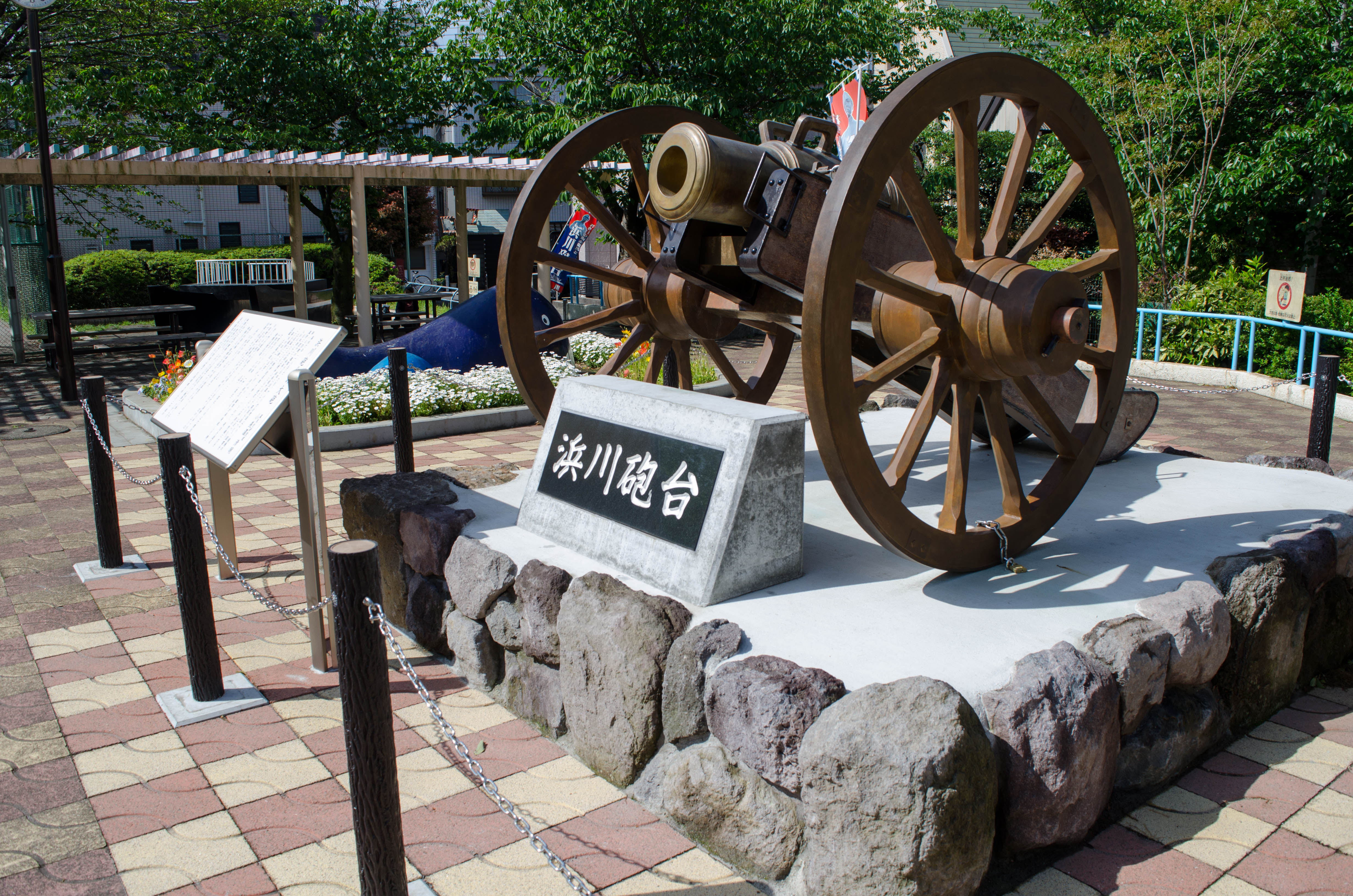 Site of the Hamakawa Gun Battery built by the Tosa Domain Government in 1854 at Shinagawa, Tokyo.